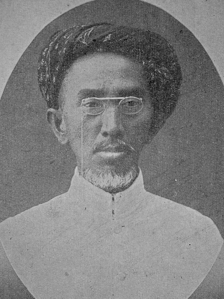 Kyai Haji Ahmad Dahlan (Arabic: أحمد دحلان; 1 August 1868 – 23 February 1923), born Muhammad Darwis, was an Indonesian Islamic revivalist who established Muhammadiyah in 1912.